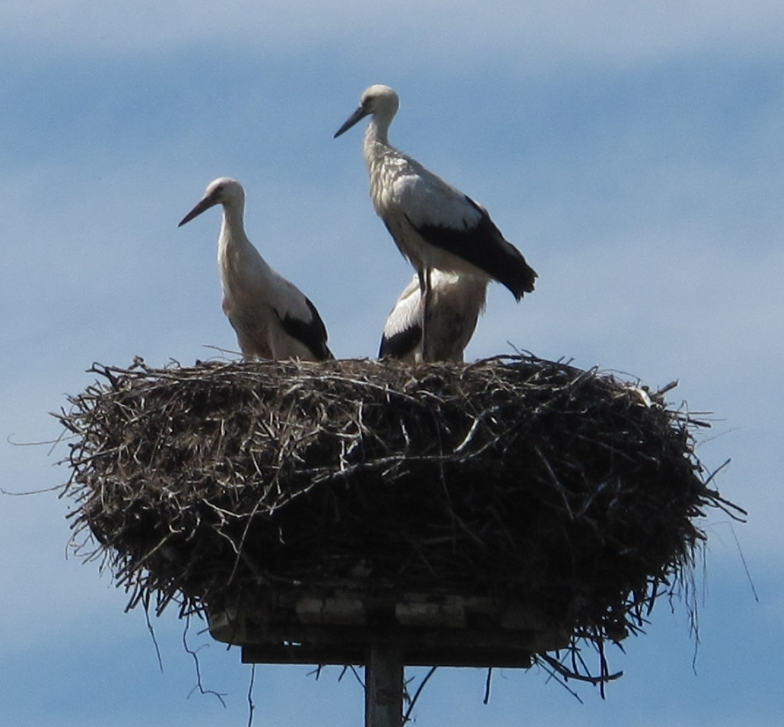 White stork nest in Gottesgabe. Gottesgabe (german for: god's gift) is a part of Altfriedland, a village of the municipality Neuhardenberg in the District Märkisch-Oderland, Brandenburg, Germany. In 1304 Gottesgabe was bought by the Cistercian Nunnery Friedland and was used until the 20th-century as folwark by the following Herrschaft Friedland. In todays village there remind to the old folwark some, mostly dilapidated farm annexes and barns as well as rail profils; some buildings have been restored.